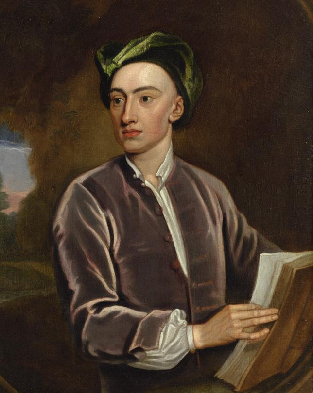 Portrait of Alexander Pope (1688-1744)